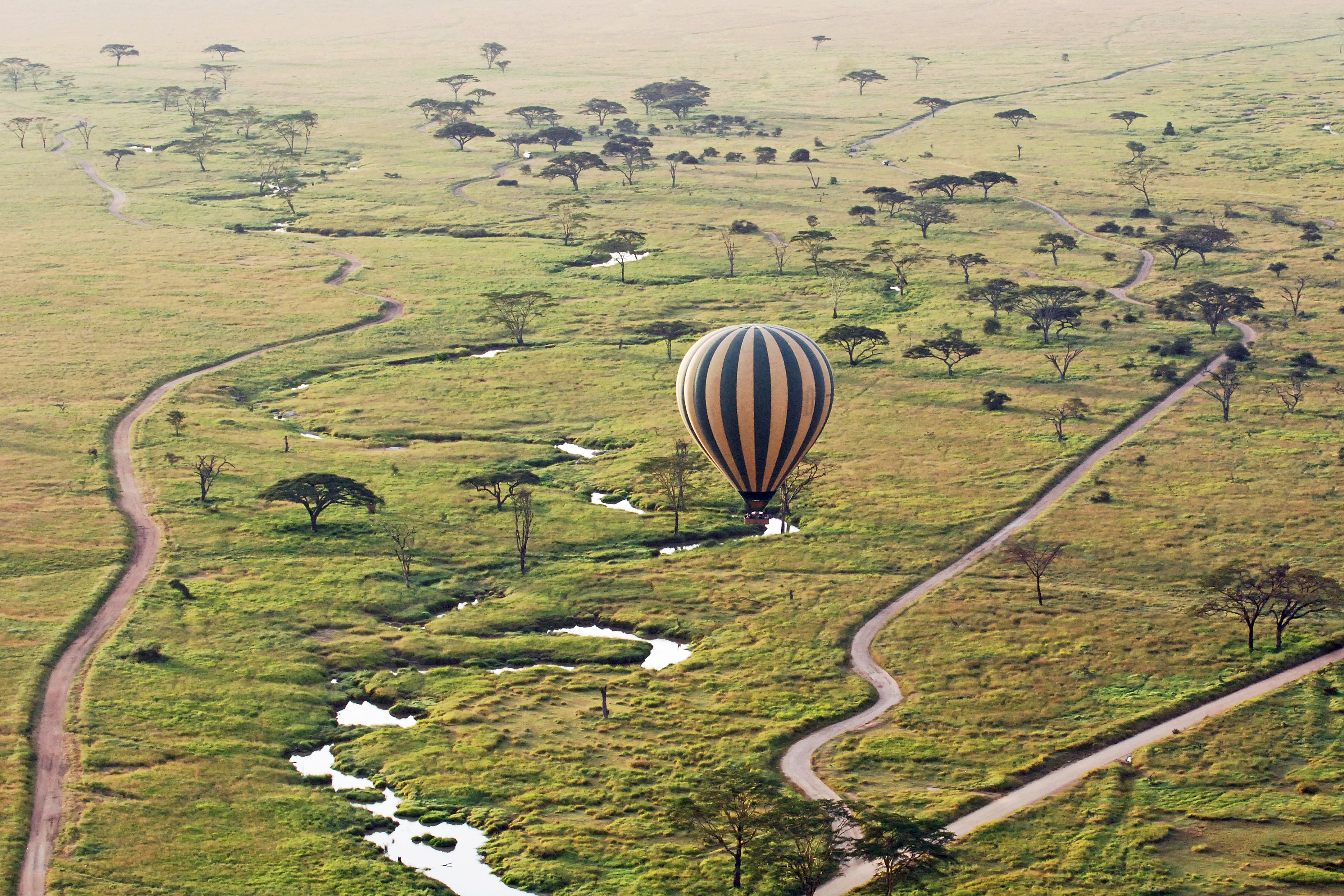 Floating along the Serengeti